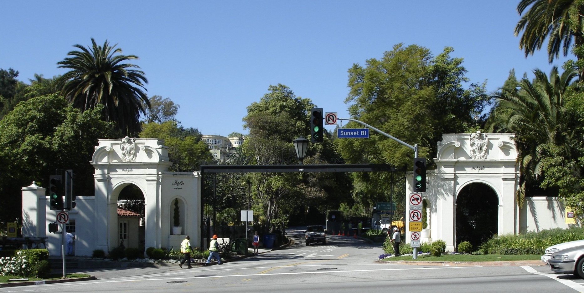 The west entrance of Bel Air at Bellagio and Sunset Blvd (Picture by Mike Downey). Category:Images of Los Angeles, California